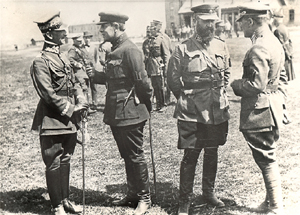 Petlyura (second from left) and Polish General Antoni Listowski (left). 1920